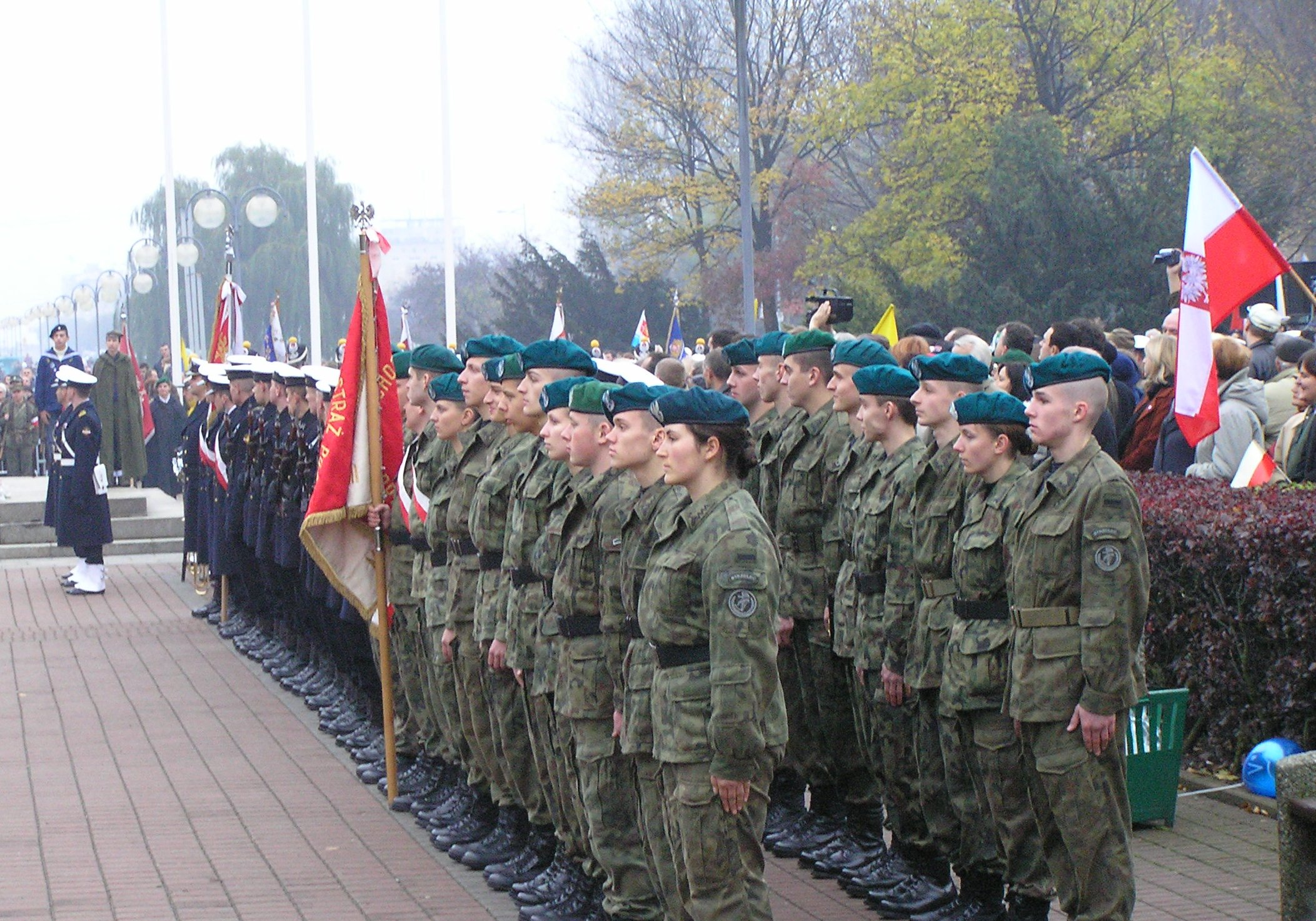 Commemorating the National Independence Day in Gdynia